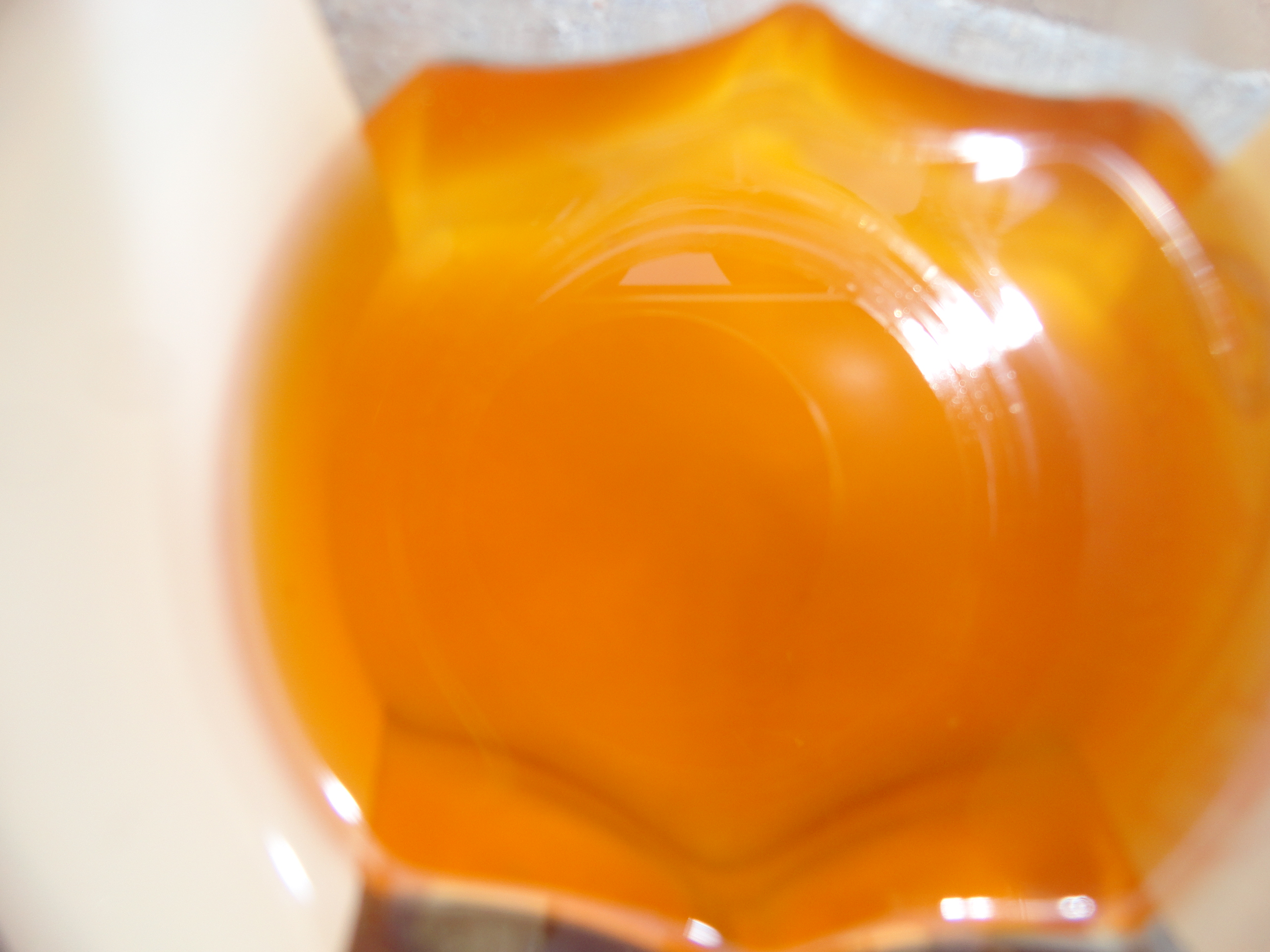 తేనె.. వనస్థలి పురంలో